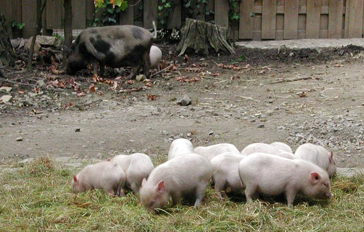 Mini pigs at the Osnabrück-zoo in Germany